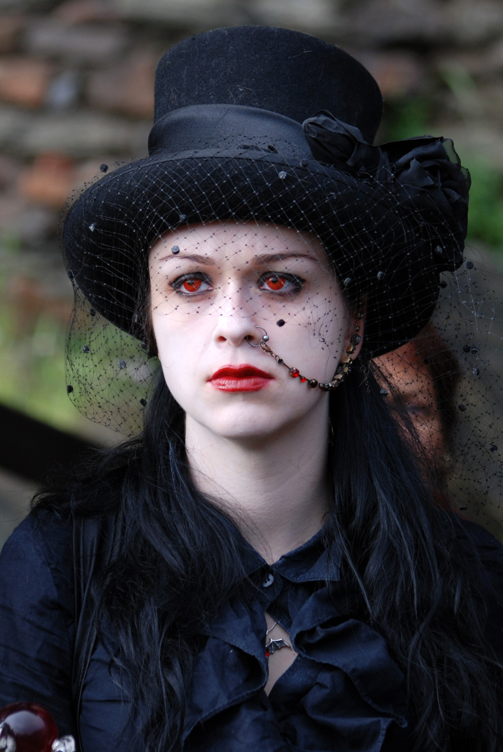 This photo was made in cooperation with CASTLE PARTY PRODUCTIONS in Bolków (webpage)